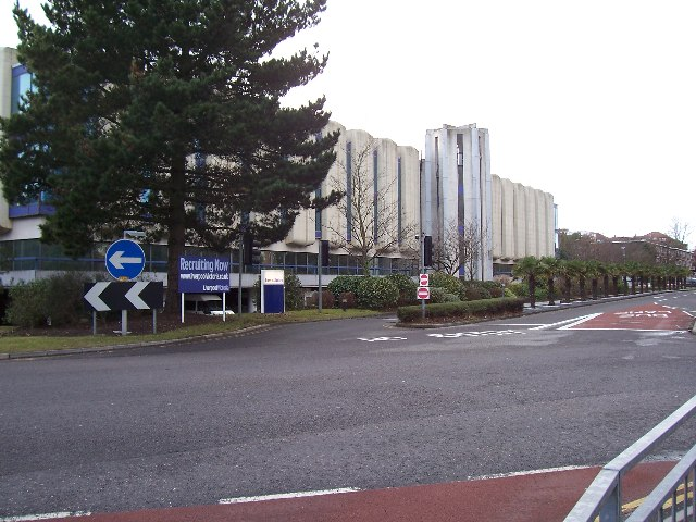 County Gates Gyratory. The offices of Liverpool Victoria are sited in the middle of the 'roundabout'